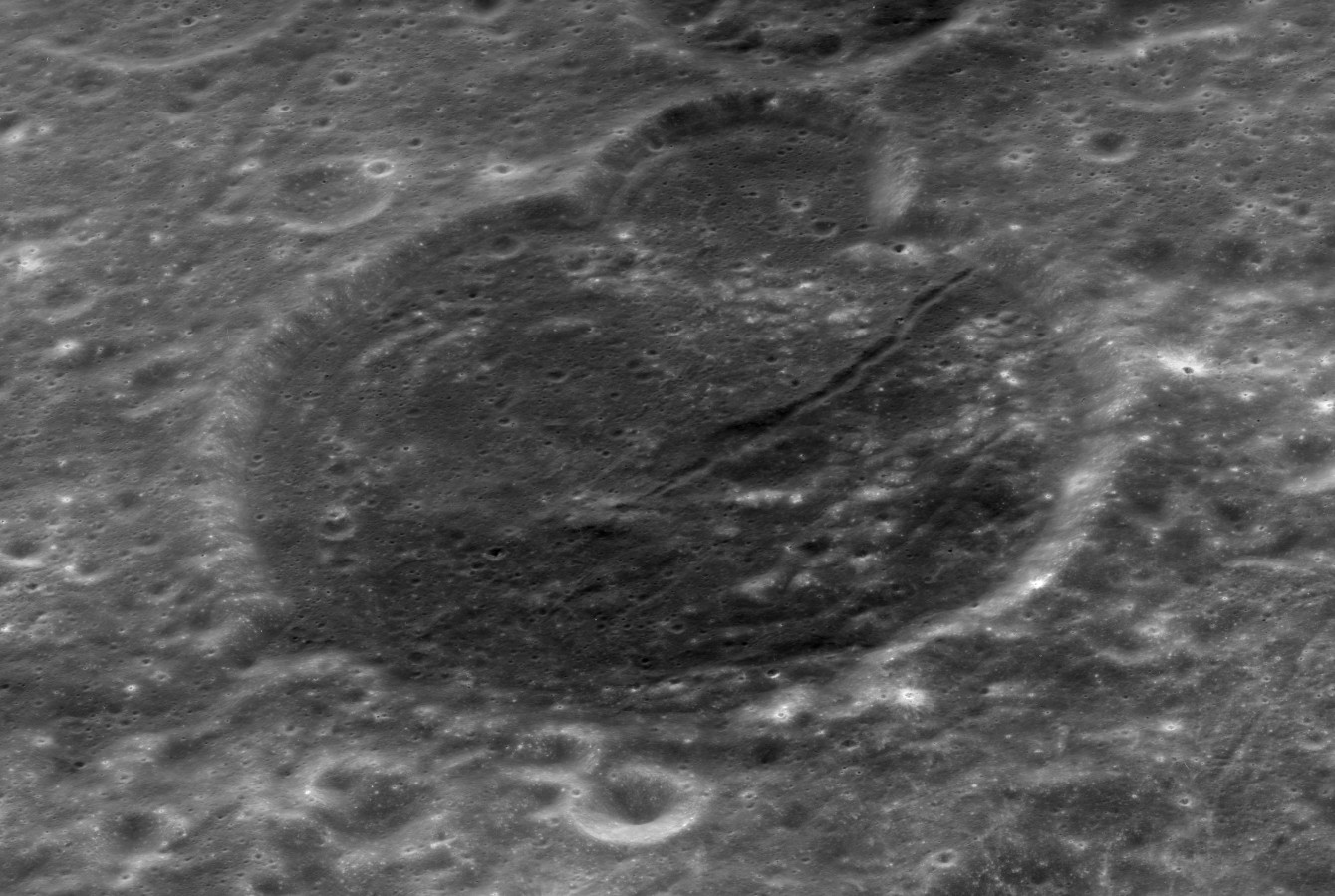 Oblique view of Swasey crater, facing west, on the moon. Taken by Apollo 17 panoramic camera.